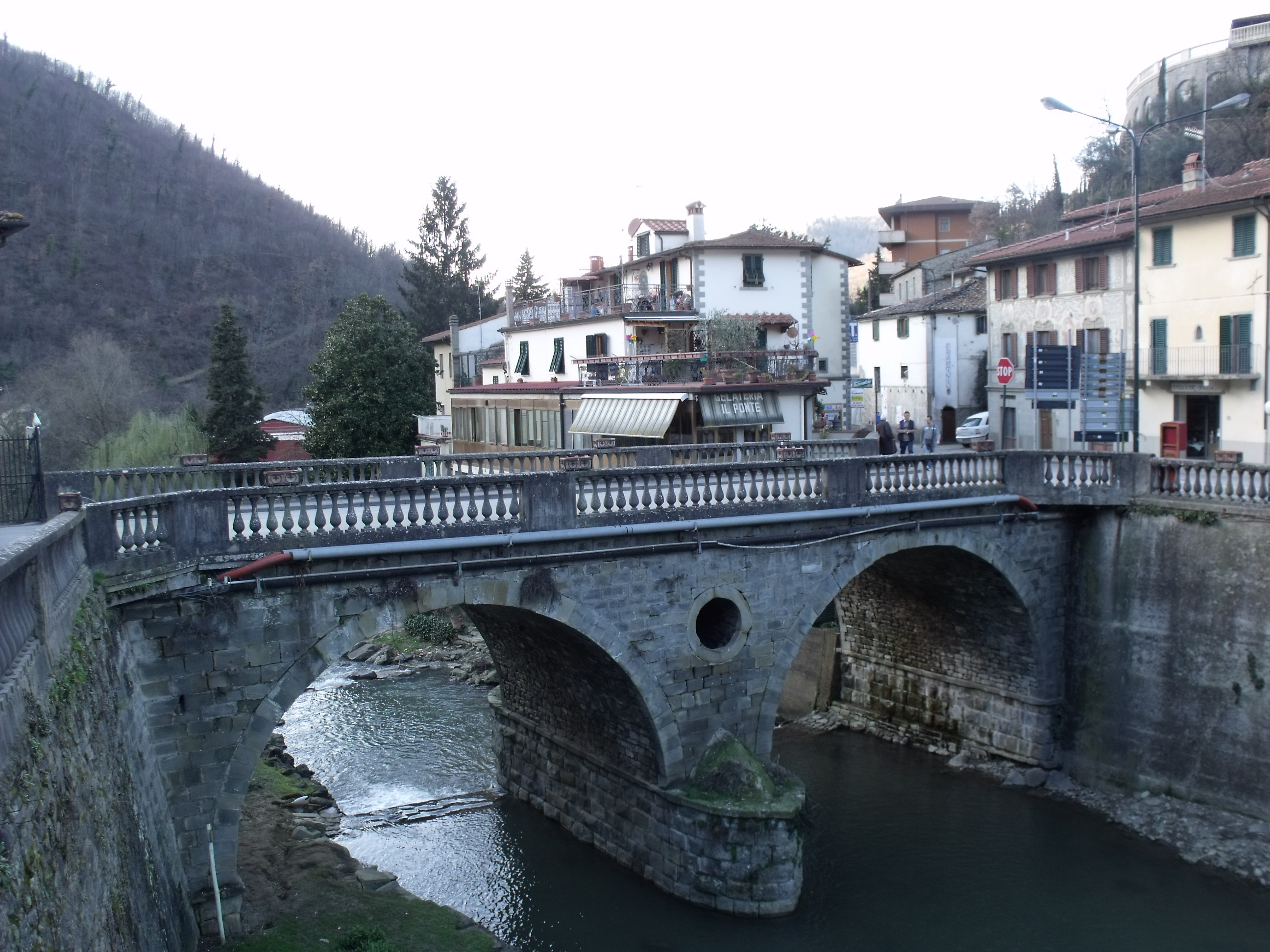 Ponte Sul Rincine, the bridge of the Rincine (river) in Londa, Province Florence, Tuscany, Italy